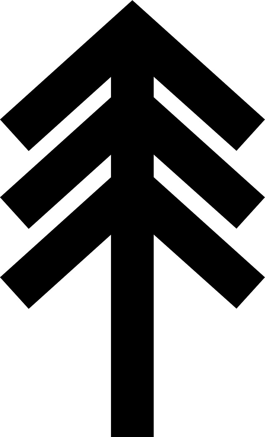 Three stacked Tiwaz runes, read as ttt, or logographically as "Tiwaz Tiwaz Tiwaz", found on the Seeland-II-C bracteate